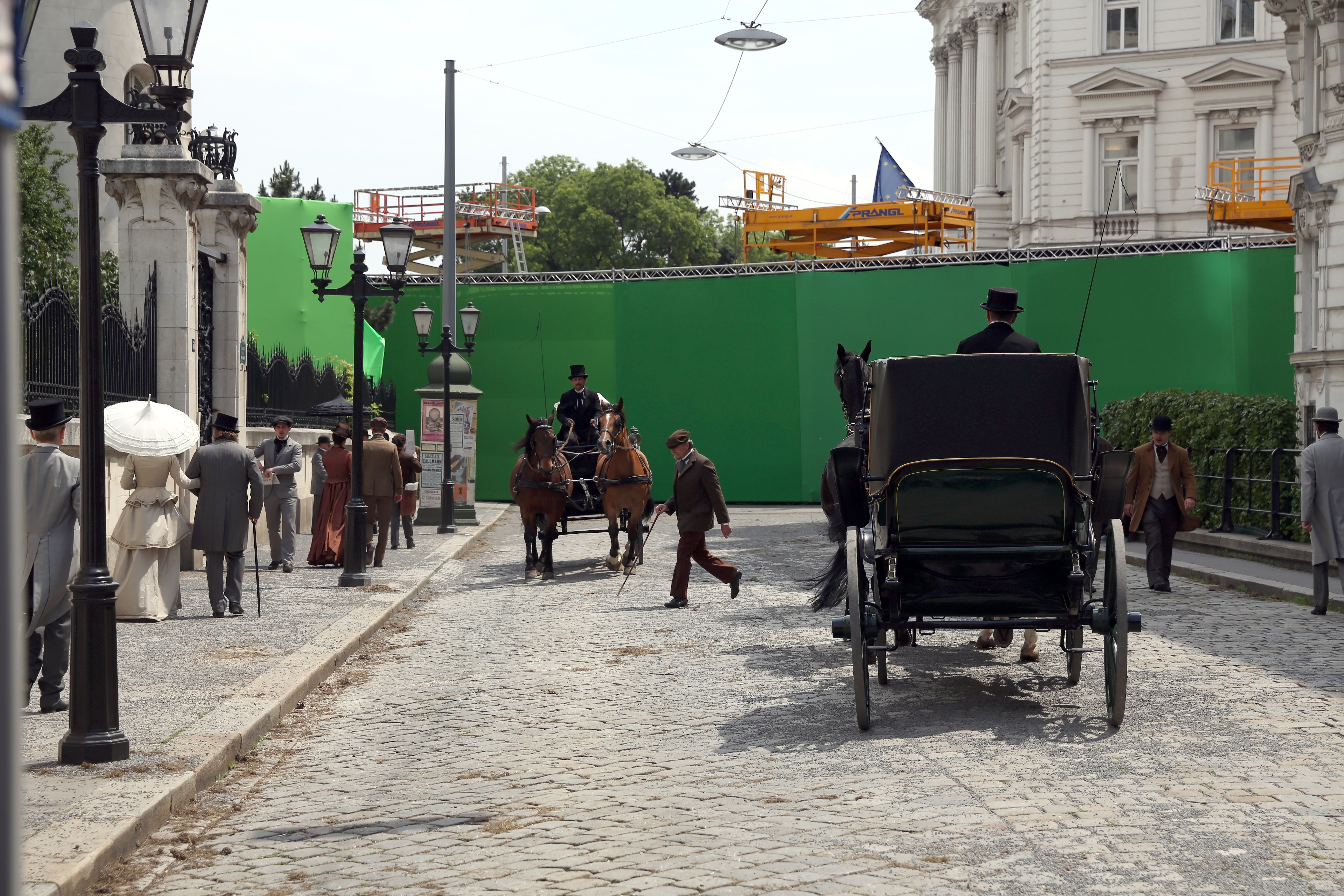 Filming of the movie Madame Nobel in and around the Embassy of France in Vienna (Vienna, Austria).